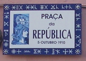 Praça da Republica street plate in Póvoa de Varzim